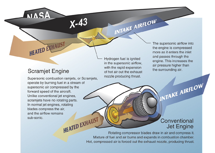 Comparision of X-43A hypersonic scramjet engine with conventional jet engine. Dibujo de X-43A, mostrando las diferencias entre el motor Scramjet y un motor turbojan comun